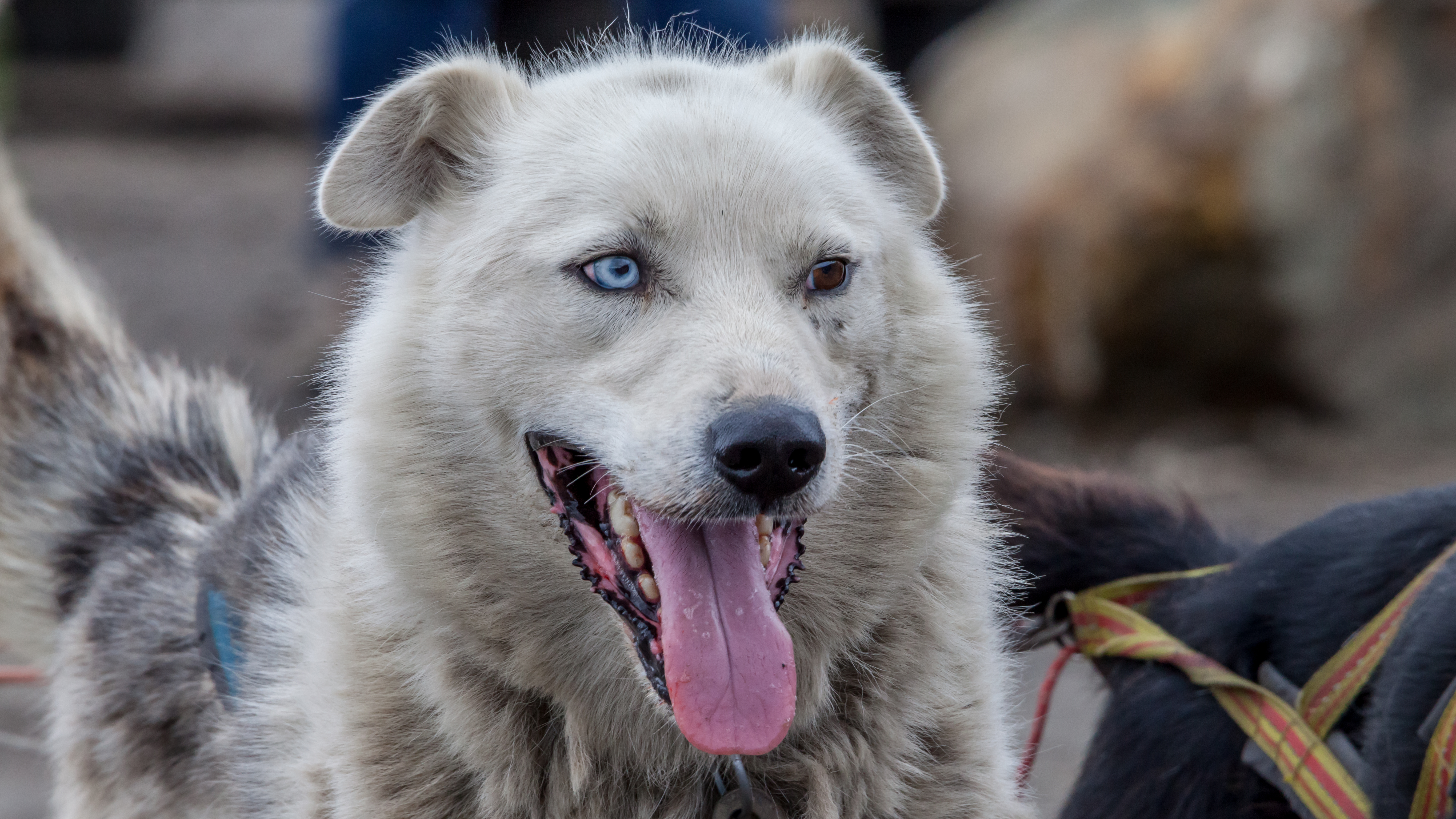 This Siberian husky, which was reared in a kennel in Longyearbyen, reveals an eye abnormality called heterochromia.